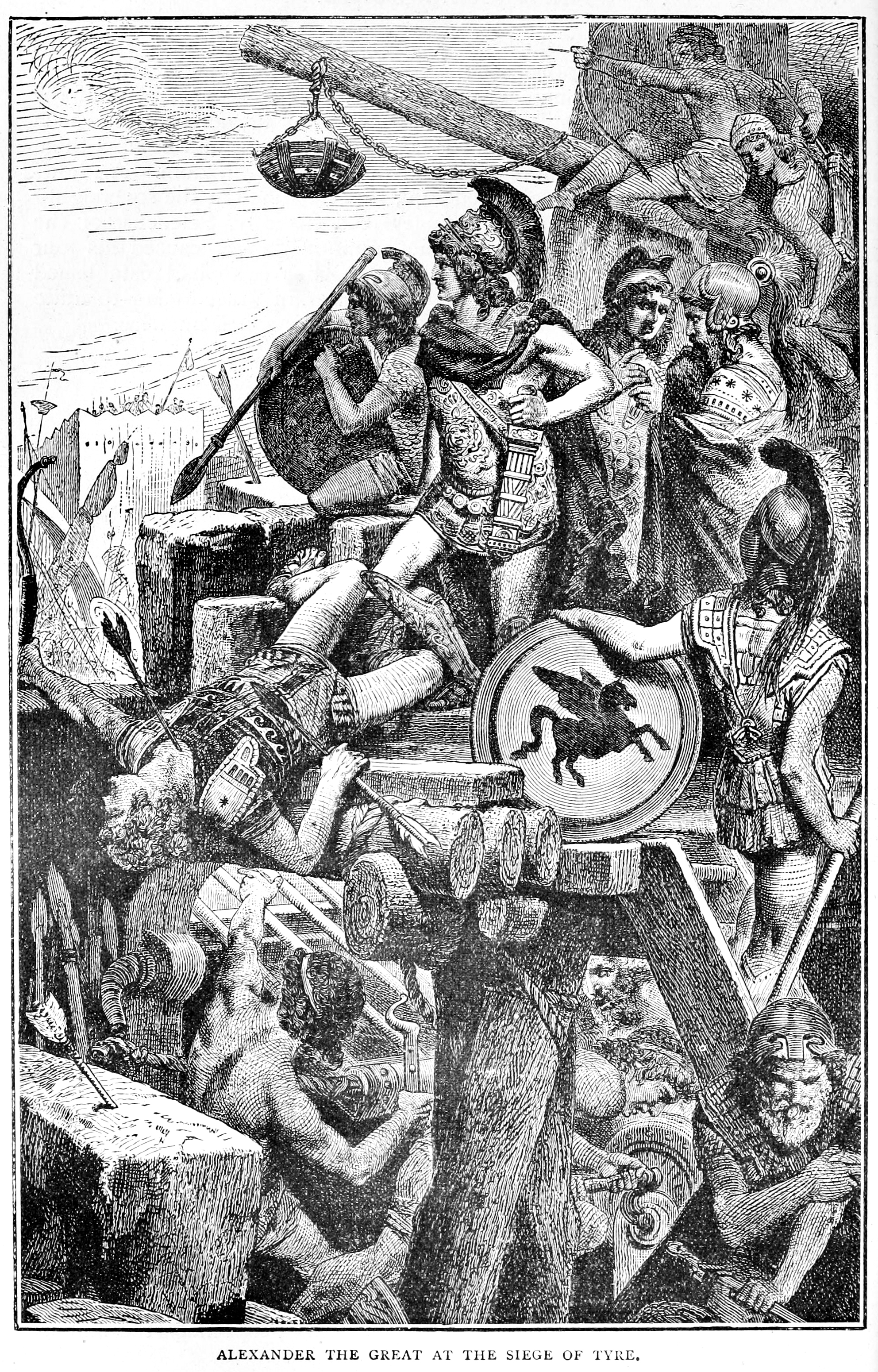 Alexander the Great in the Siege of Tyre